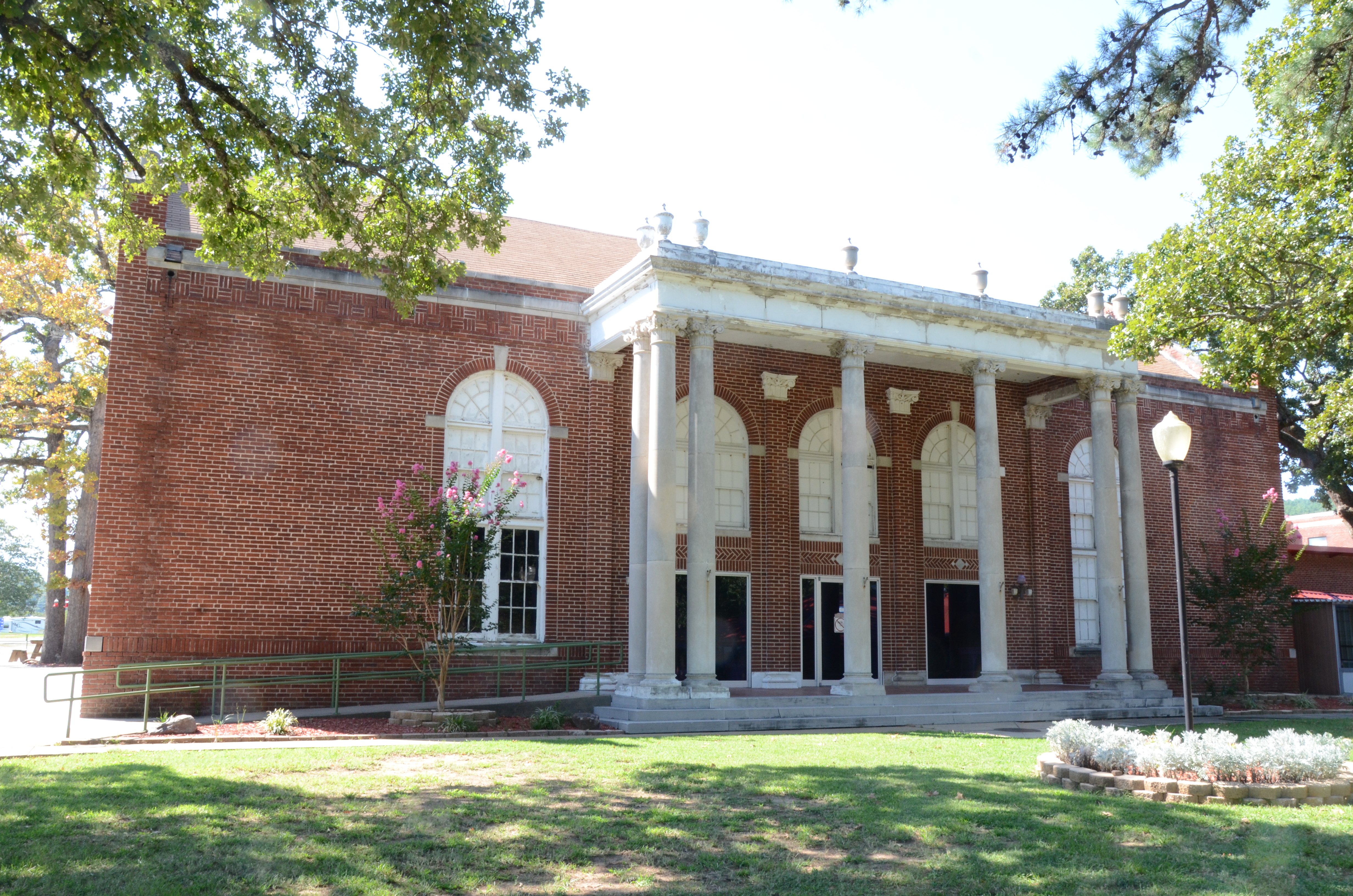 Eastern Oklahoma Tuberculosis Sanatorium